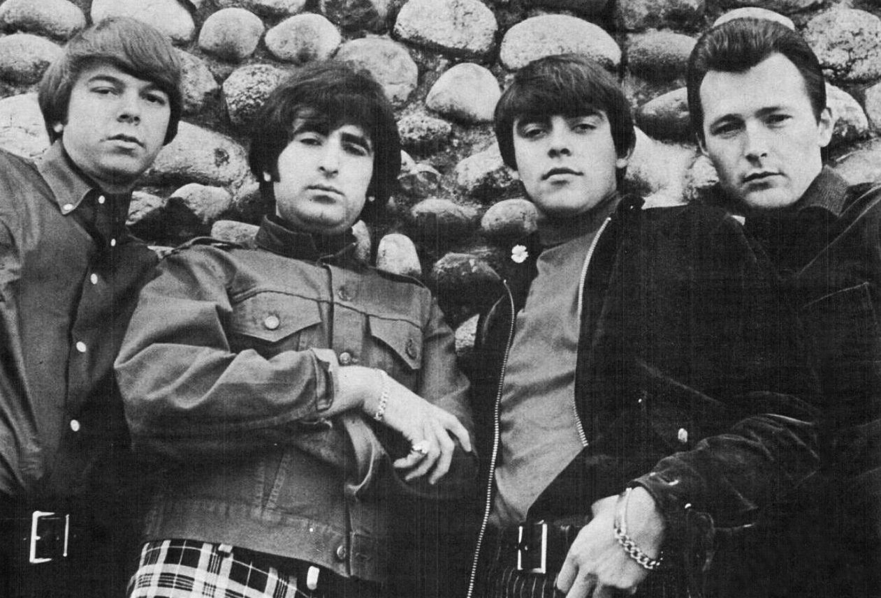 Trade ad for The Standells's single "Dirty Water".To better adapt it to his respective Wikipedia article, the ad was cropped and cleaned in a graphics editing program. The original can be viewed on the source below.